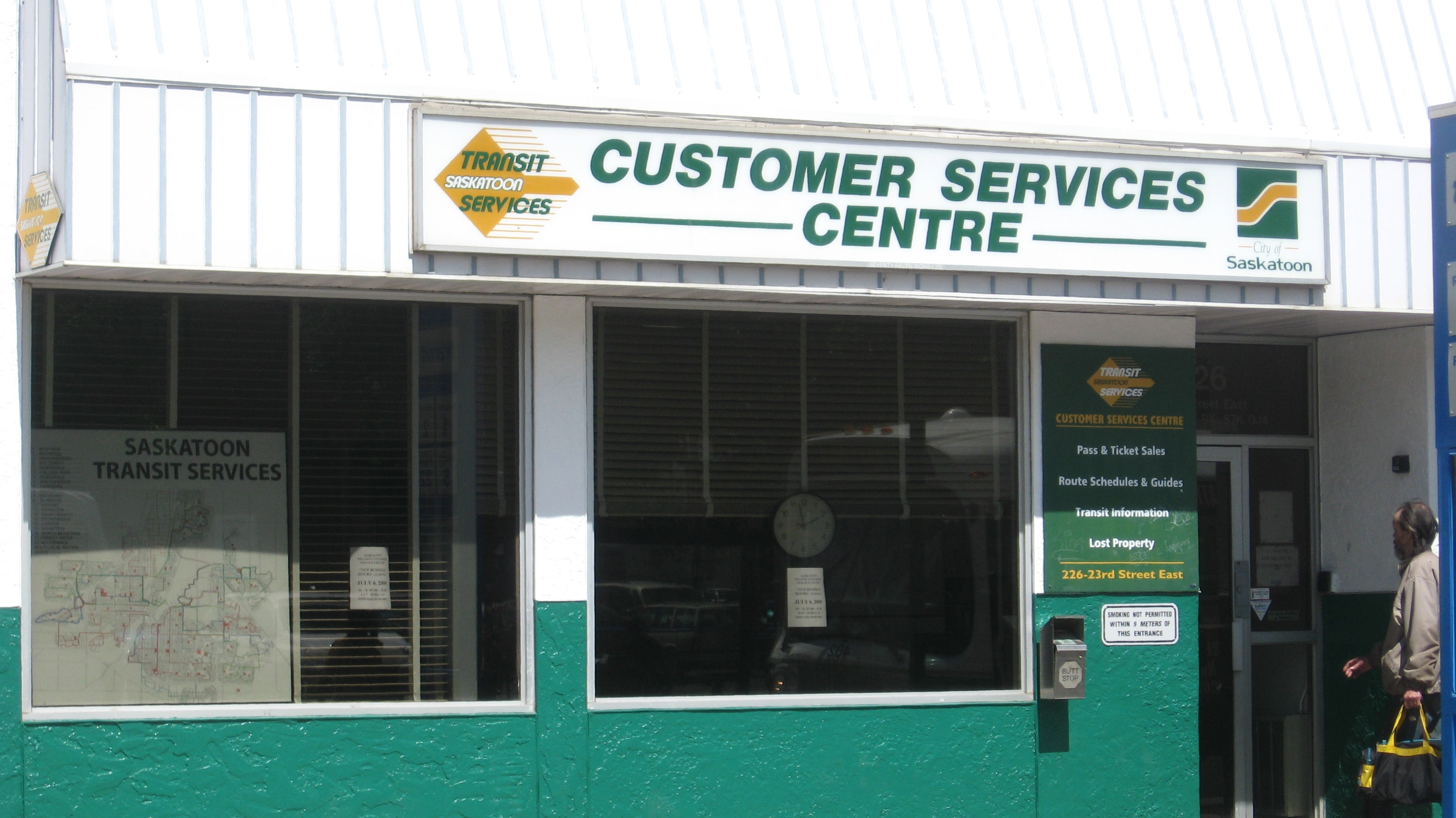 Customer Service center at 23d Street downtown terminal